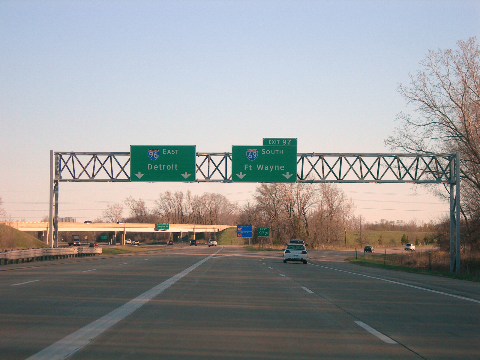 Southern interchange between Interstate 96 and Interstate 69 southwest of Lansing, Michigan